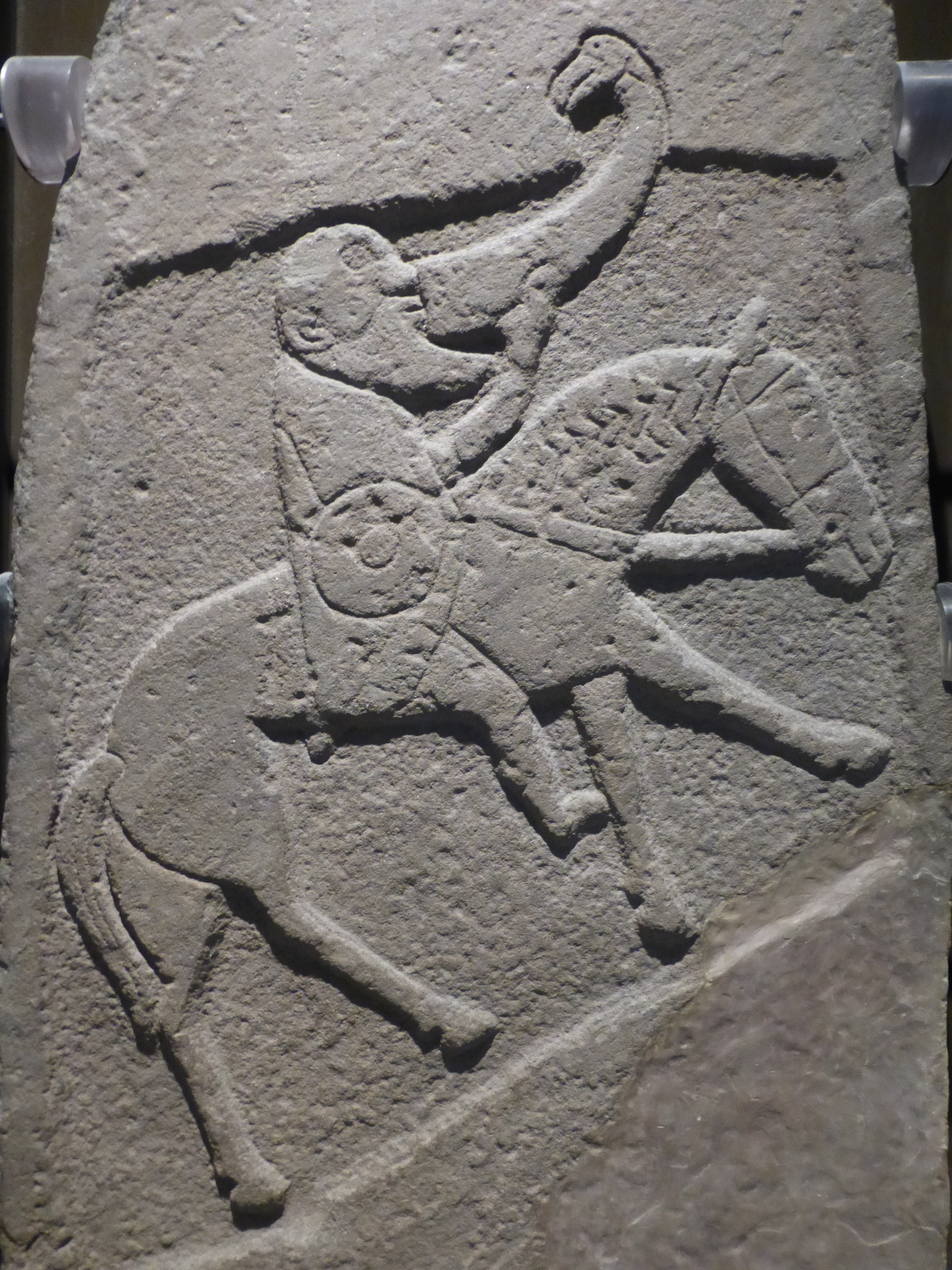 Bearded Pictish warrior from the Bullion Stone, Angus, now in the National Museum of Scotland. The carving may have been intended as a humorous caricature.